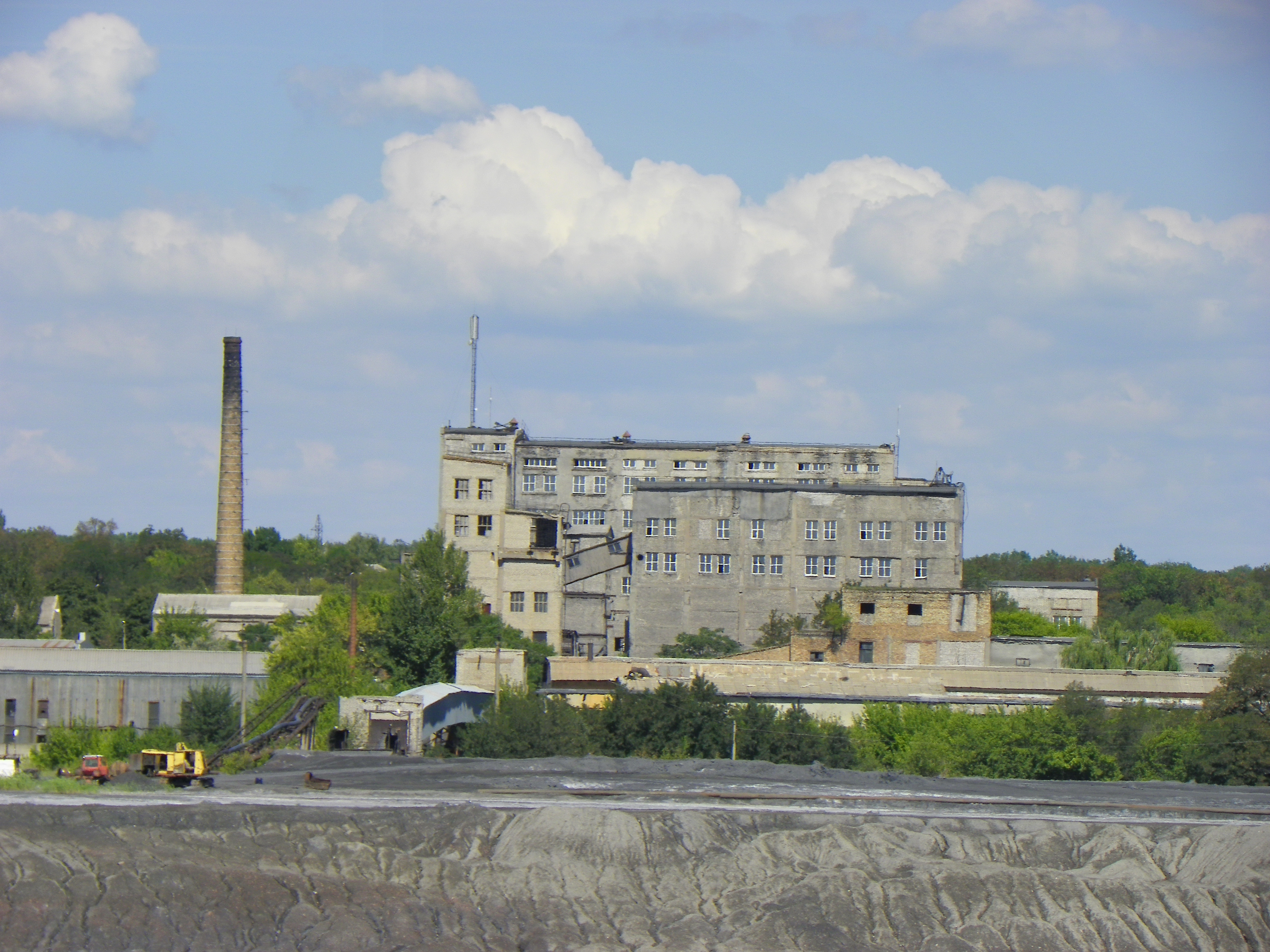 Mospyne central coal preparation plant.